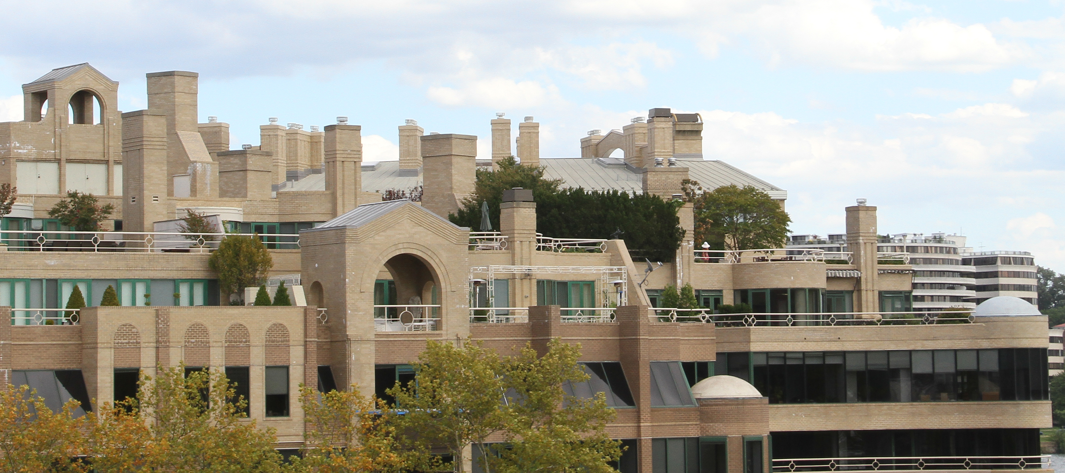 View of the upper floors of the Washington Harbour office, retial, and luxury residential complex on the waterfront in the Georgetown neighborhood in Washington, D.C., in the United States. This view showed the wide variety of architectural elements which architect Arthur Cotton Moore employed to make the complex visually intreesting.